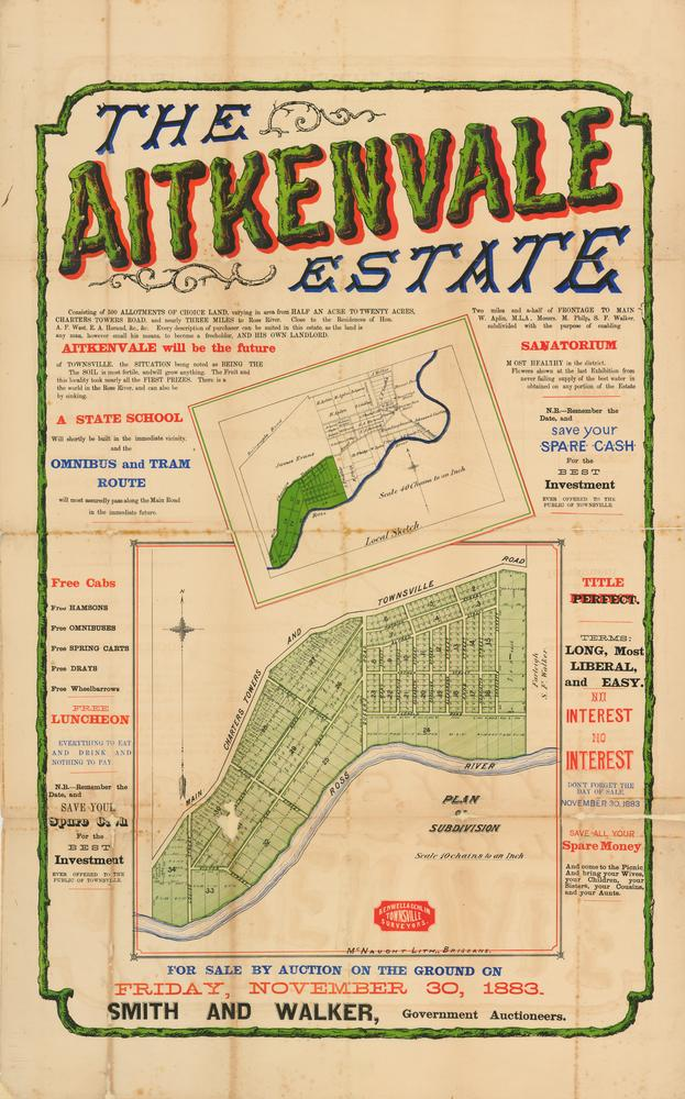 Estate Map of Aitkenvale Estate, Townsville, Queensland, 1883 Estate map showing plan of allotments to be sold by auction on 30th November, 1883 by Smith and Walker, government auctioneers. The land for sale is between the main Charters Towers and Townsville road and Ross River.